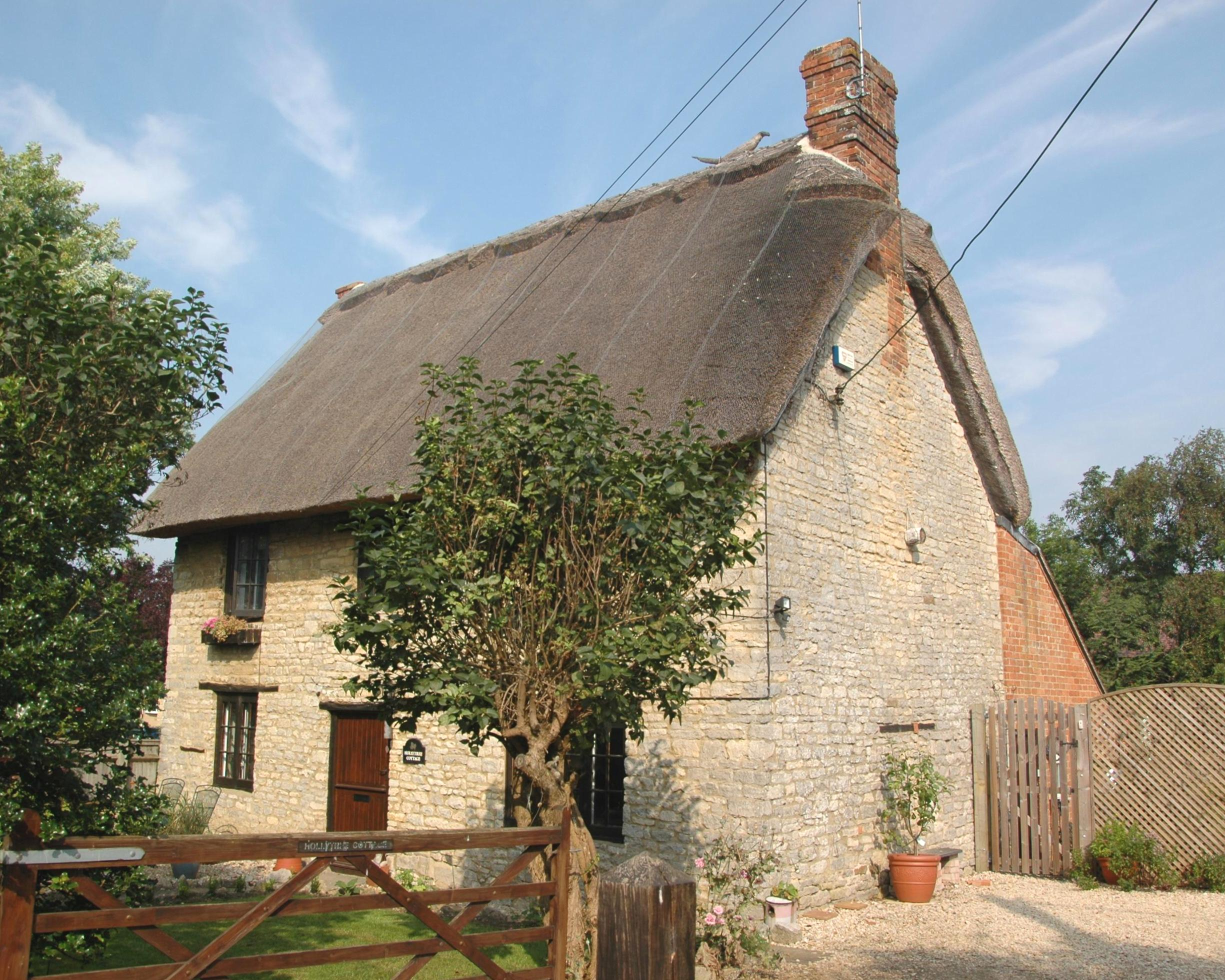 Holly Tree Cottage, Merton Road, Ambrosden, Oxfordshire